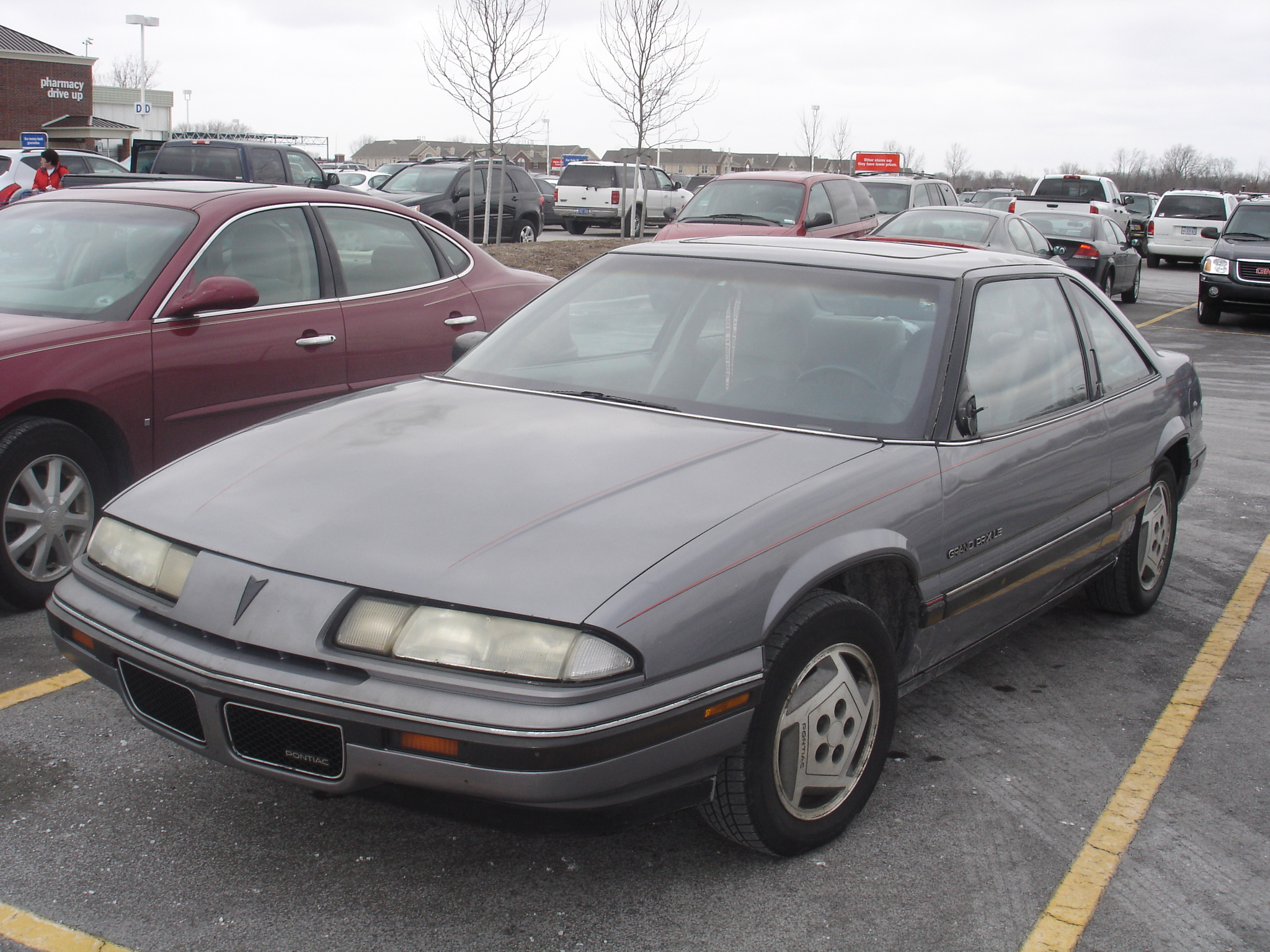 1989 Pontiac Grand Prix